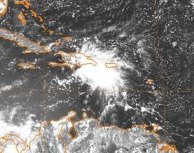 Remnants of Tropical Depression Nine on August 22, 2003